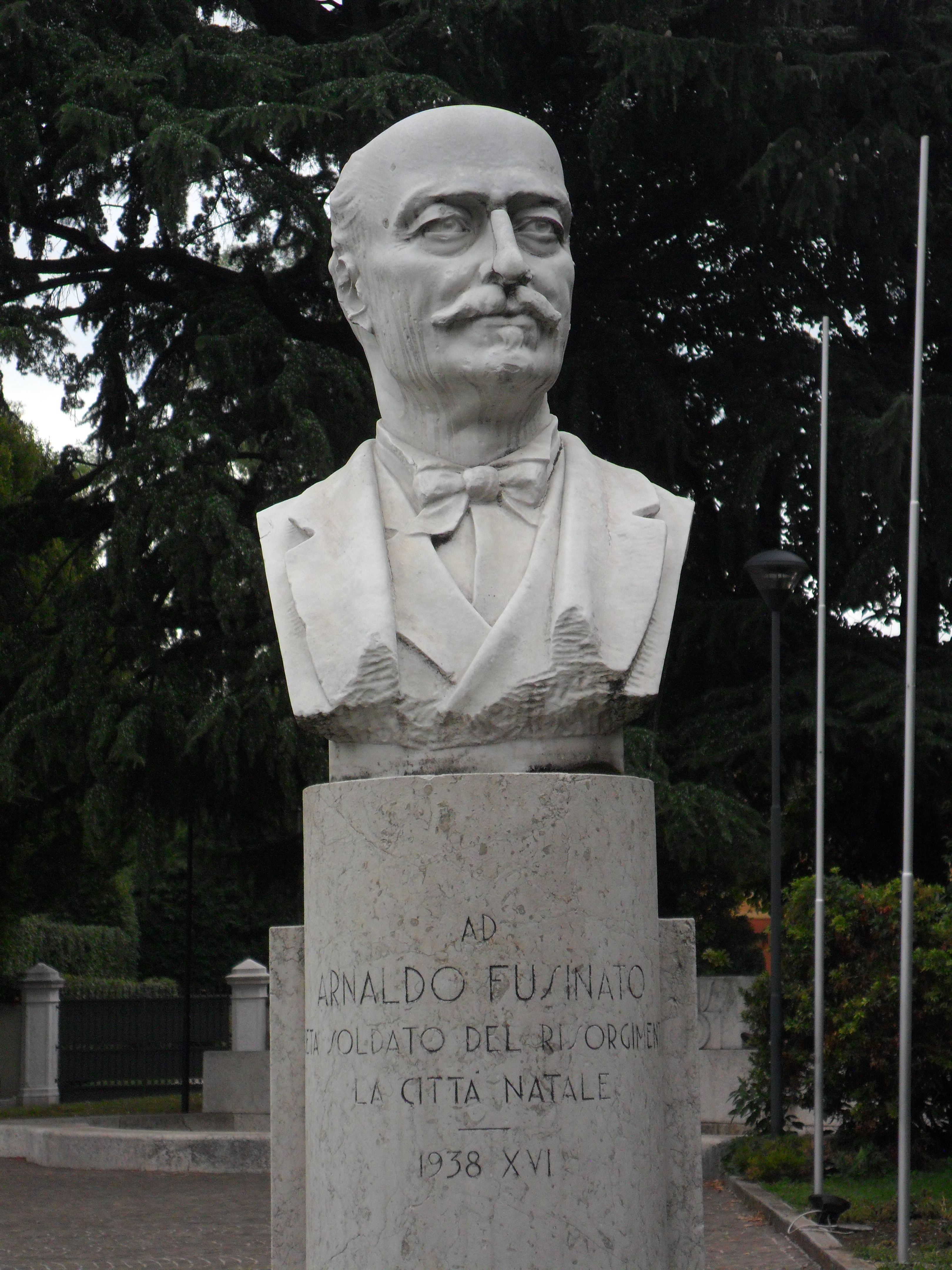 This is a photo of a monument which is part of cultural heritage of Italy.